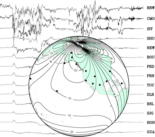 Magnetic storm of 29-31 October 2003.